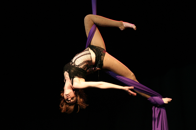 Description of Aerial Circus apparatus. Aerial tissu, static trapeze, Spanish web, aerial hammock and aerial hoop Photos, Description and Video of Aerial apparatus Aerial tissu (also aerial tissue, aerial silk, aerial ballet in silk, aerial contortion or aerial curtain) is an acrobatic, aerial ballet which is performed while suspended from a piece of silk or other fabric ("tissu" is French for fabric). Aerial Hoop (also Lyra, Cerceaux, aerial ballet on hoop, aerial contortion) is an acrobatic, aerial ballet which is performed while suspended from a circular hoop that spins, orbits and moves up and downen:hoop ("cerceaux" is French for circle). Aerial Hammock (also aerial tissue, aerial silk, aerial ballet in silk, aerial contortion or aerial curtain) is an acrobatic, aerial ballet which is performed while suspended from a piece of silk tied to form a hammock or other fabric ("tissu" is French for fabric). Static Trapeze (also single trap) is an acrobatic, aerial ballet which is performed on a bar suspended by two ropes. Spanish Web (also Rope, corde lisse) is an acrobatic, aerial ballet which is performed while suspended from a single rope.